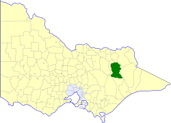 Location of the Shire of Bright within Victoria.